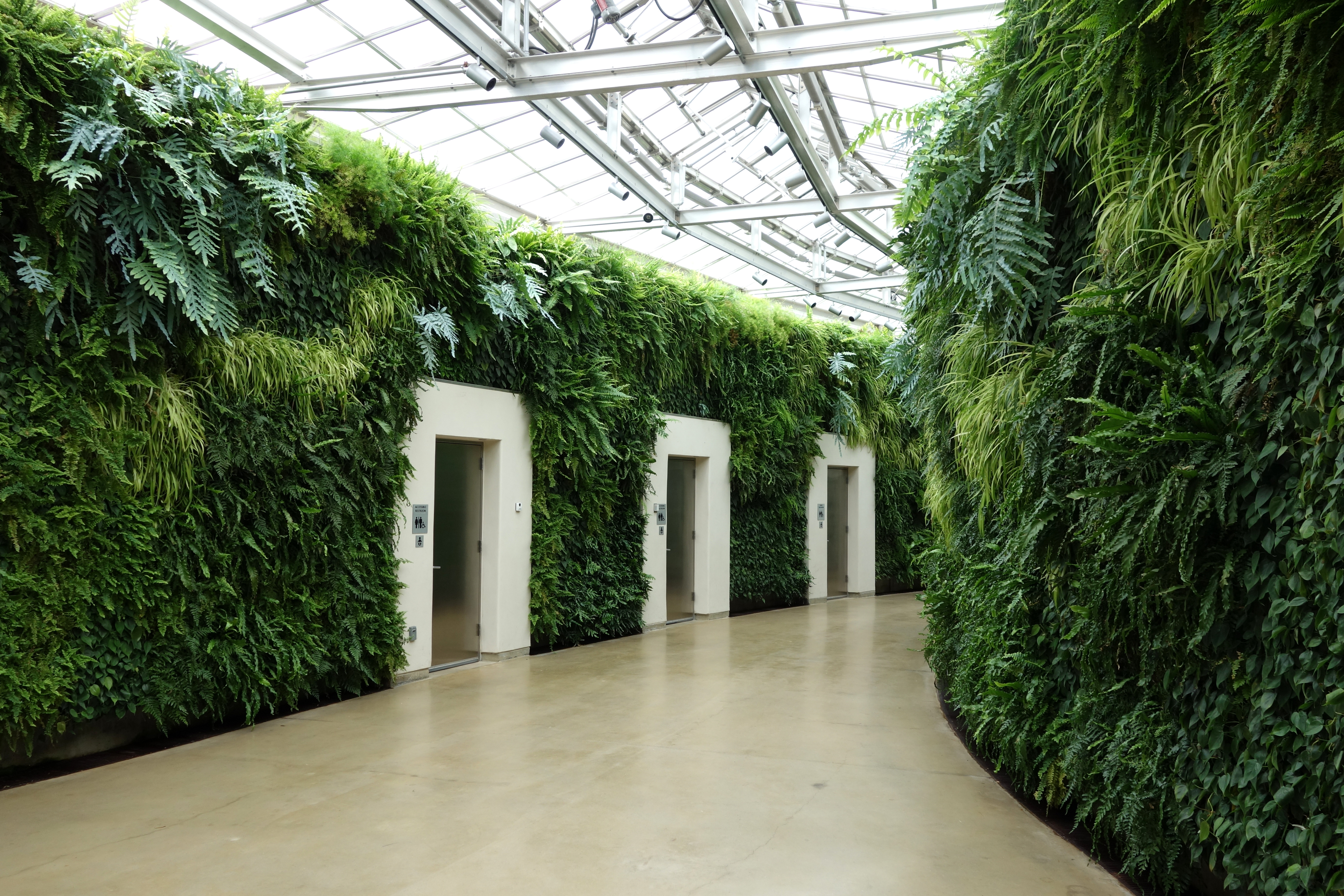 Green wall - Longwood Gardens, 1001 Longwood Rd, Kennett Square, Pennsylvania, USA.